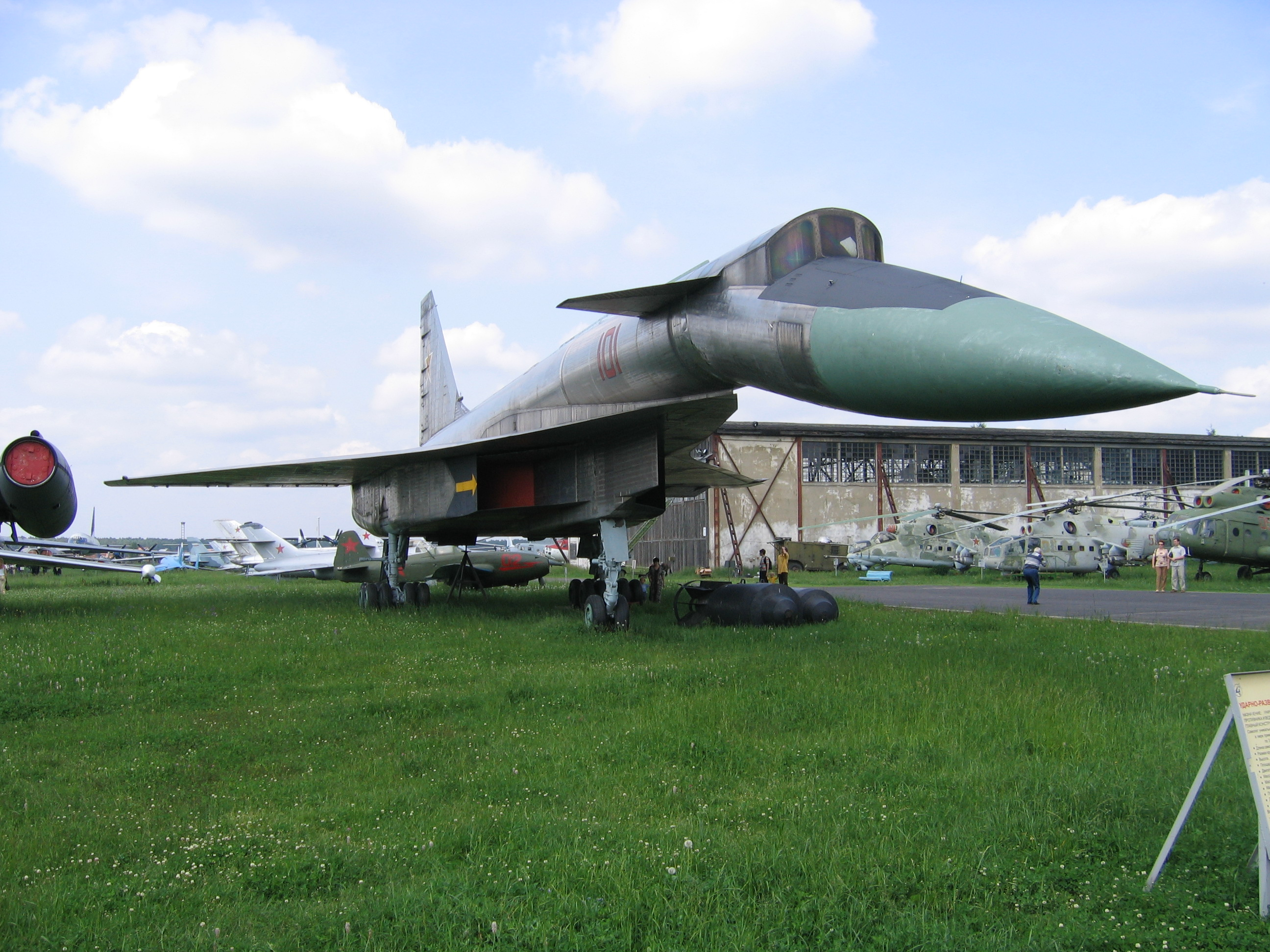 the Sukhoi T-4 at Monino Air Force Museum